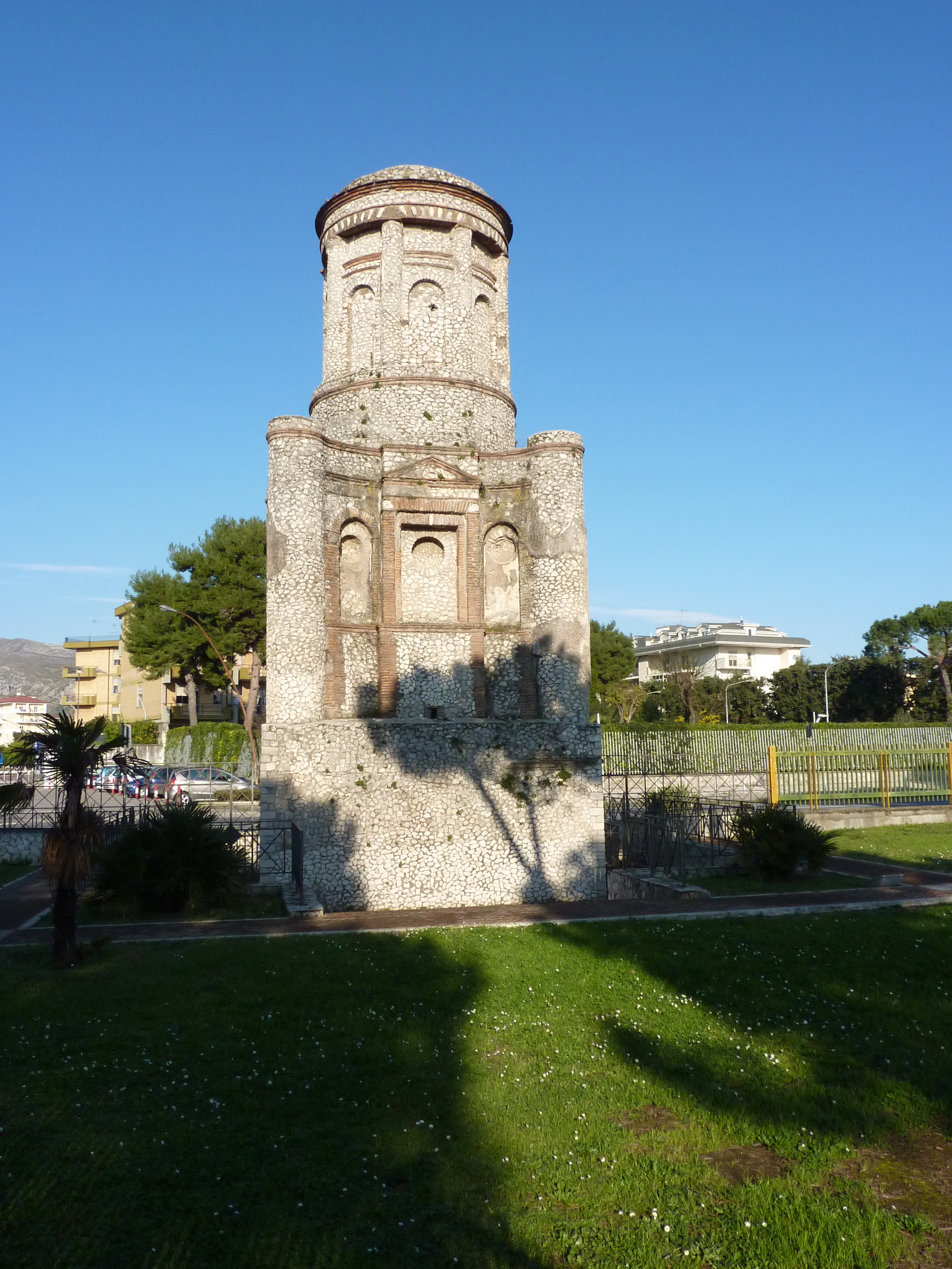 Conocchia monument is a remnant of the Roman. Is buried Flavia Domitilla, grandson of emperor Vespasian.